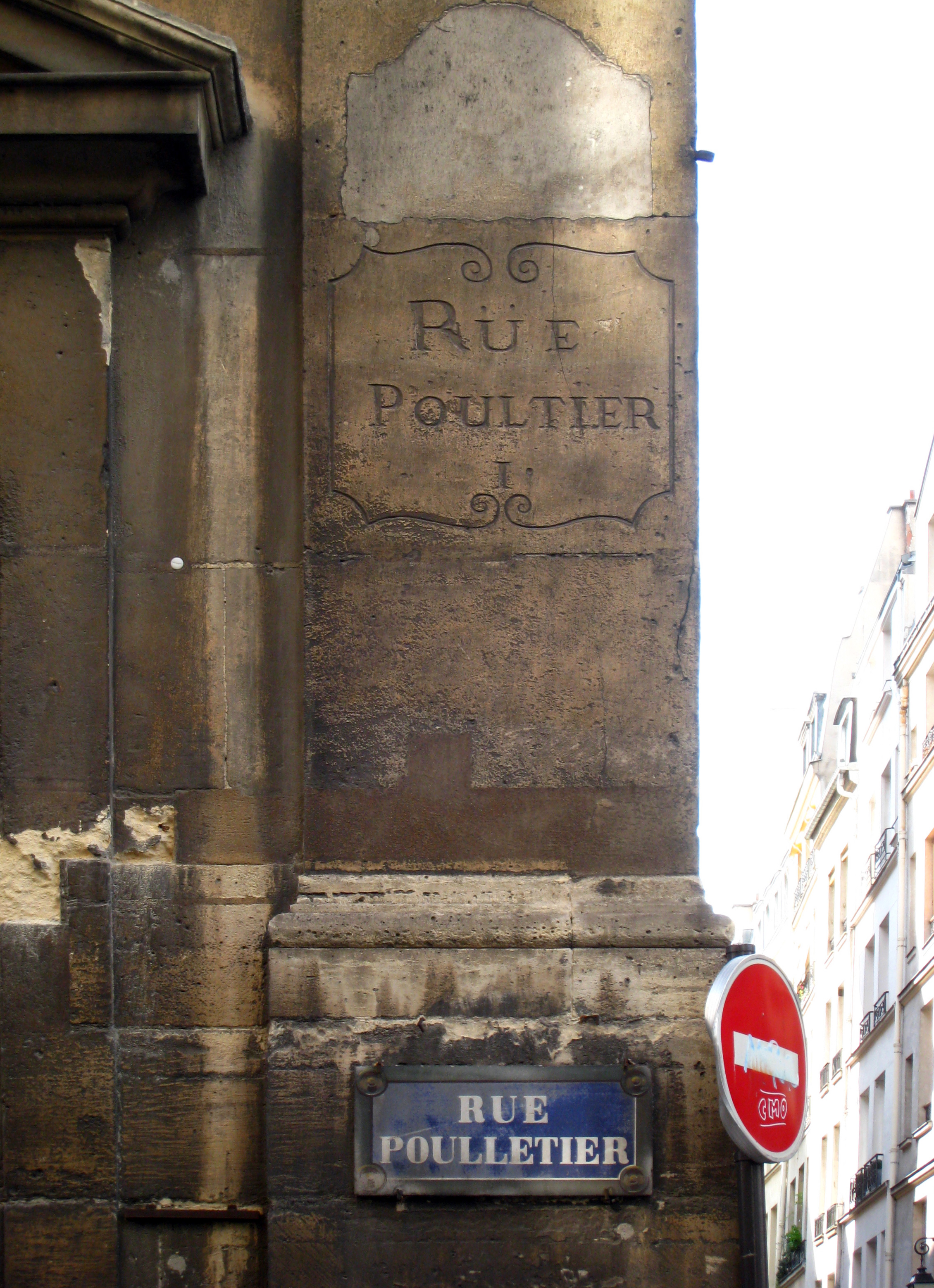 Rue Poulletier, alternatively written rue Poultier, Paris 4e arrondissement.